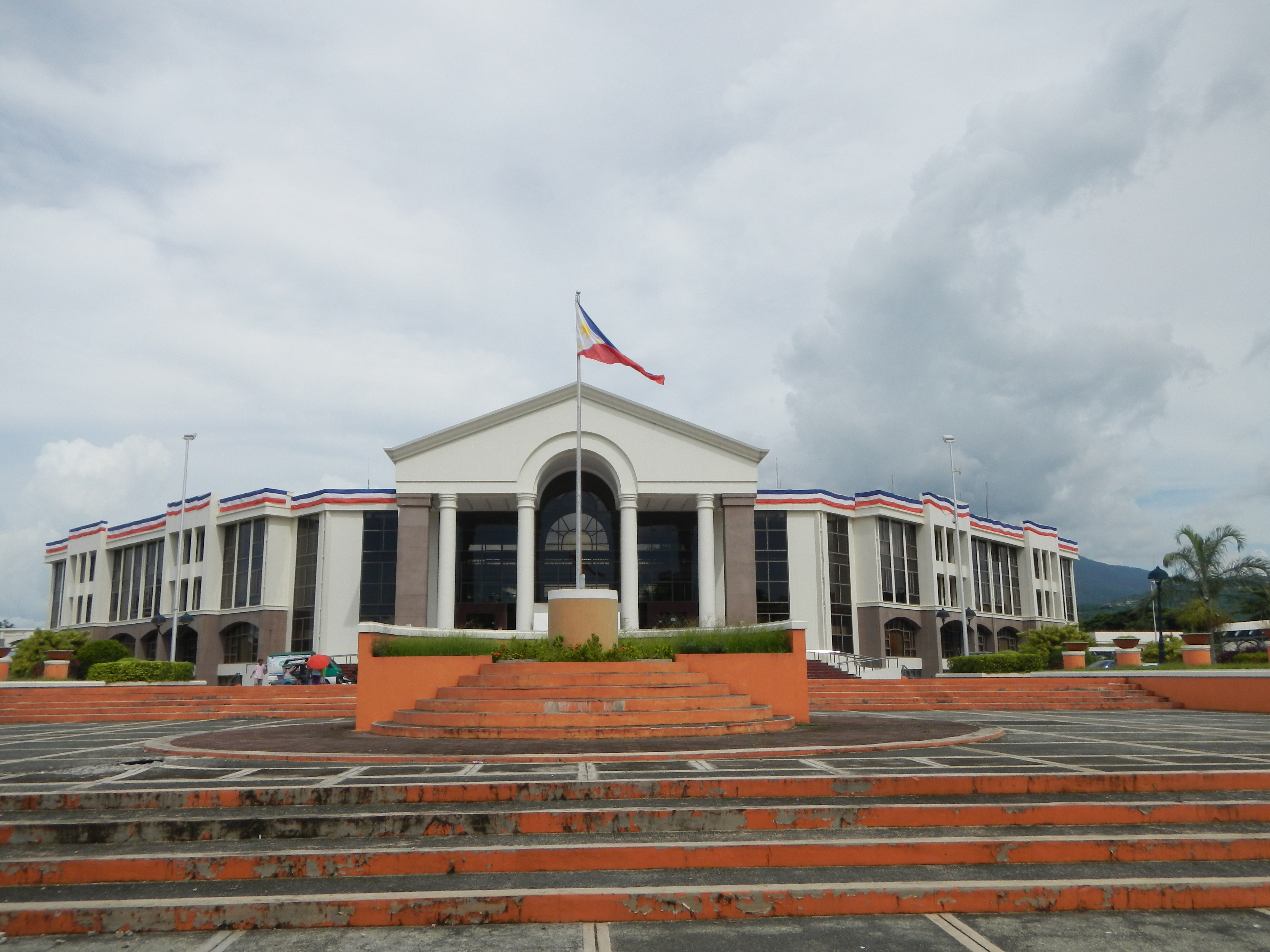 Photo of the New Calamba City Hall Complex - [1] Chipeco Avenue, Real, a 4-storey building excluding the penthouse. It has approximately 9,000 sq.m. of floor area. Coordinates: 14°11'38"N 121°9'35"E Website, New City Hall